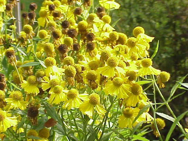 Species: Helenium autumnale Family: Asteraceae Image No. 1